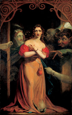 Bertalda, Assailed by Spirits, Oil on canvas, 1517 x 915 mm